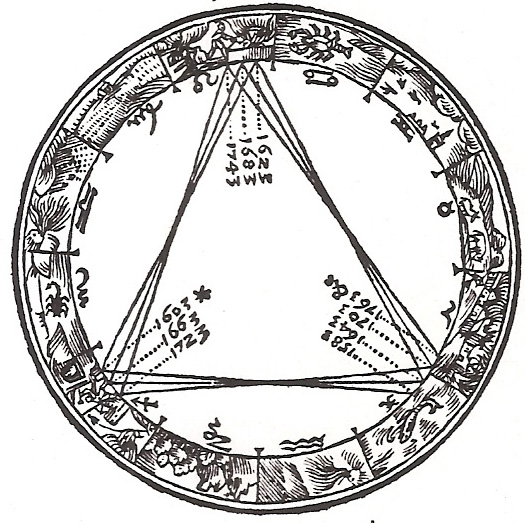 A series of great cojunctions, an illustration from Kepler's book 'De Stella Nova' (1606)